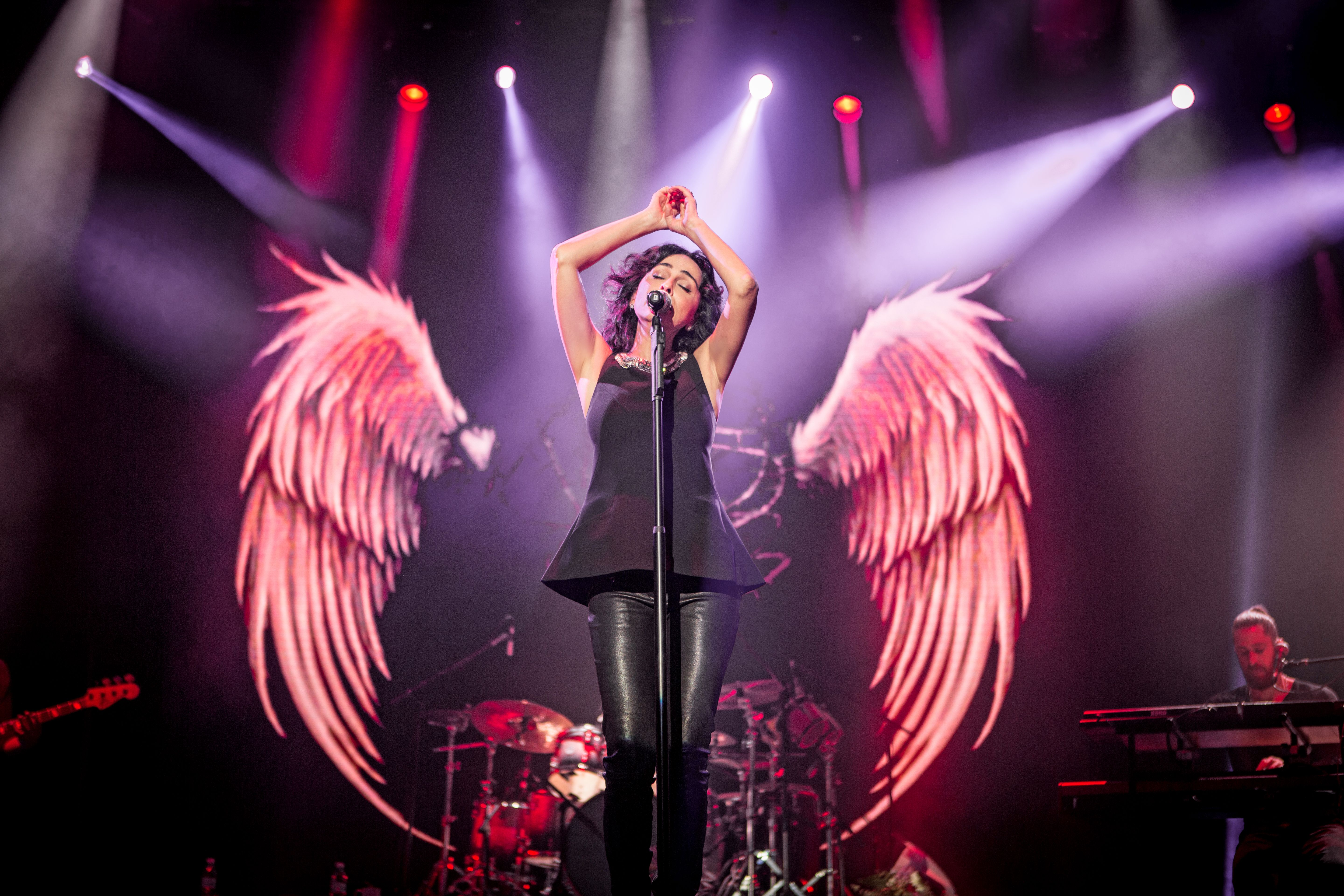 Rita - Israeli singer